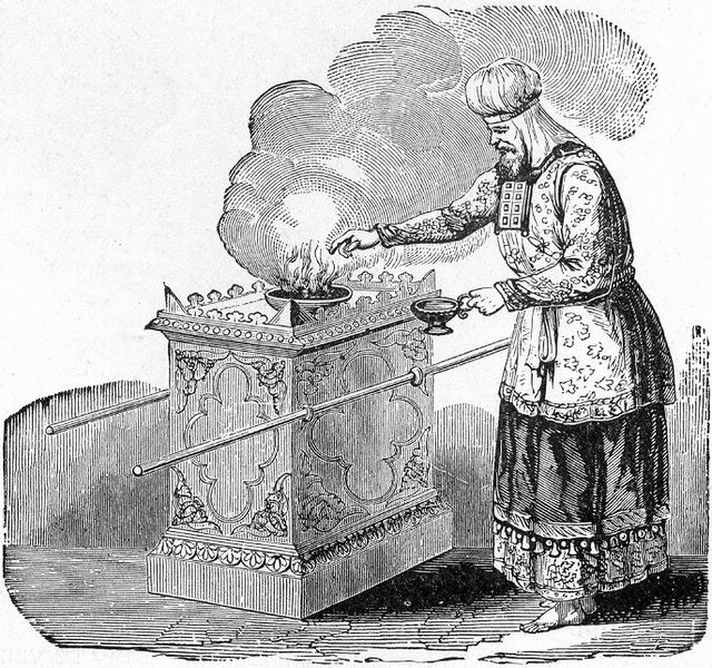 High priest offering incense on the altar, as in Leviticus 16:12; illustration from Henry Davenport Northrop, "Treasures of the Bible," published 1894